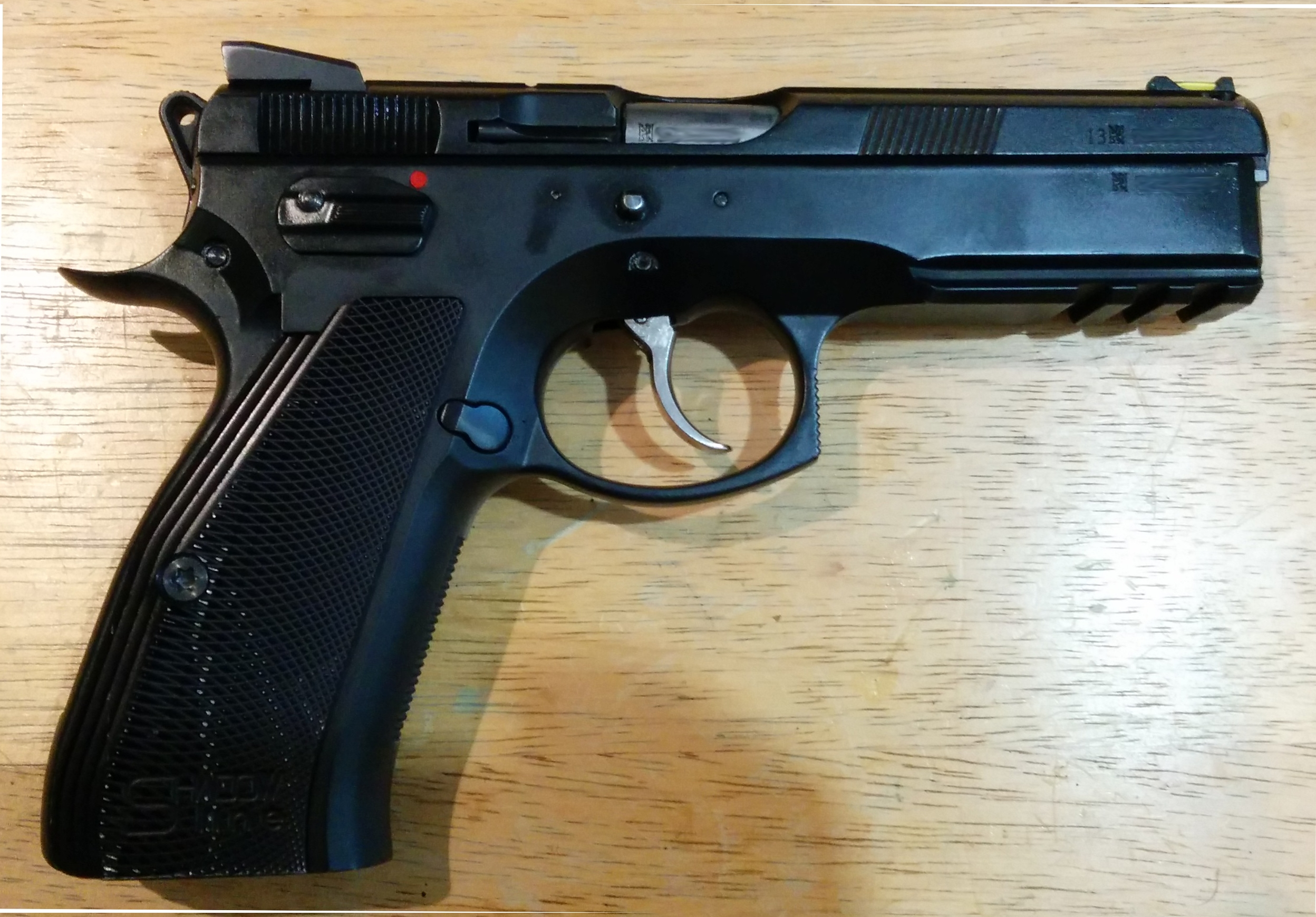 A competition-centric variant of the CZ-75 model. The serial number has been edited out to protect the owner's privacy.